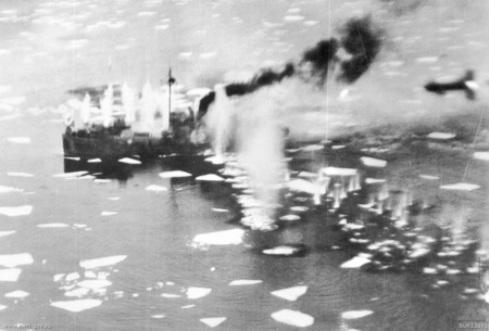 Australian War Memorial image SUK13891. A German ship under attack from an Allied Bristol Beaufighter during the 'Black Friday' attack on Forde Fjorde on 9 February 1945